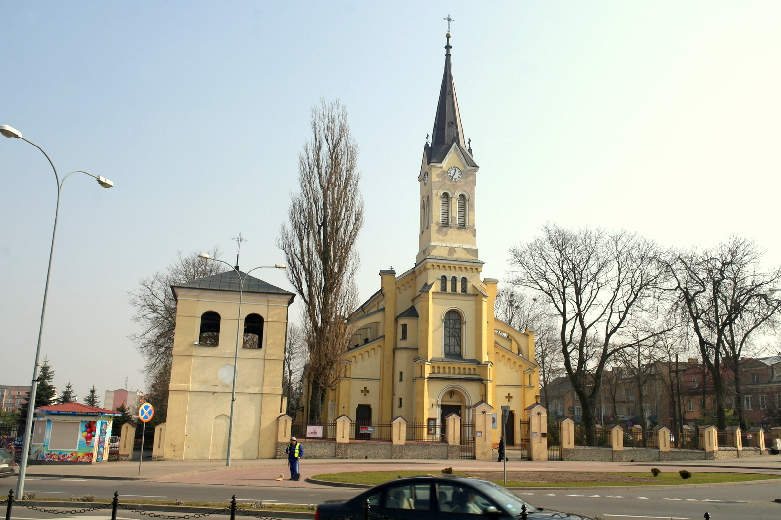 Ensamble of the Roman Catholic parish church of the Holy Trinity, Copernicus str., Grajewo City. Next to the church there is a brick belfry from 1837 and.brick rectory, built in the mid-nineteenth century.